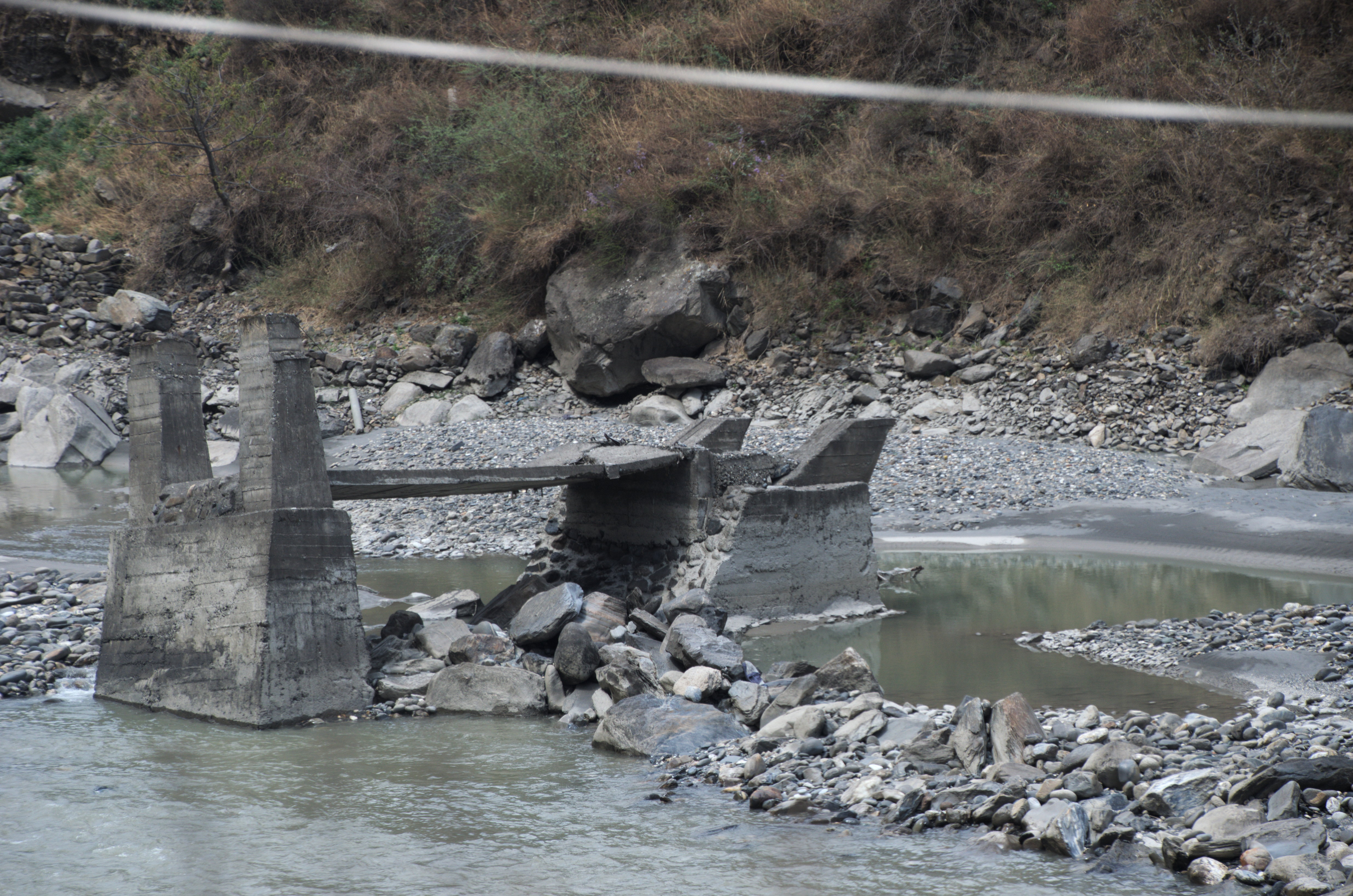 Sichuan, Wenchuan County (汶川县) bridge destroyed during the 2008 Sichuan earthquake.